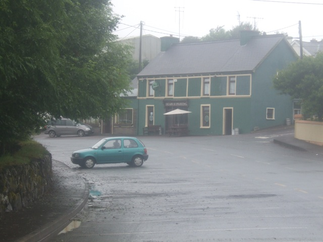 Main Street - Cill Na Martra Quiet today but maybe it is always quiet.